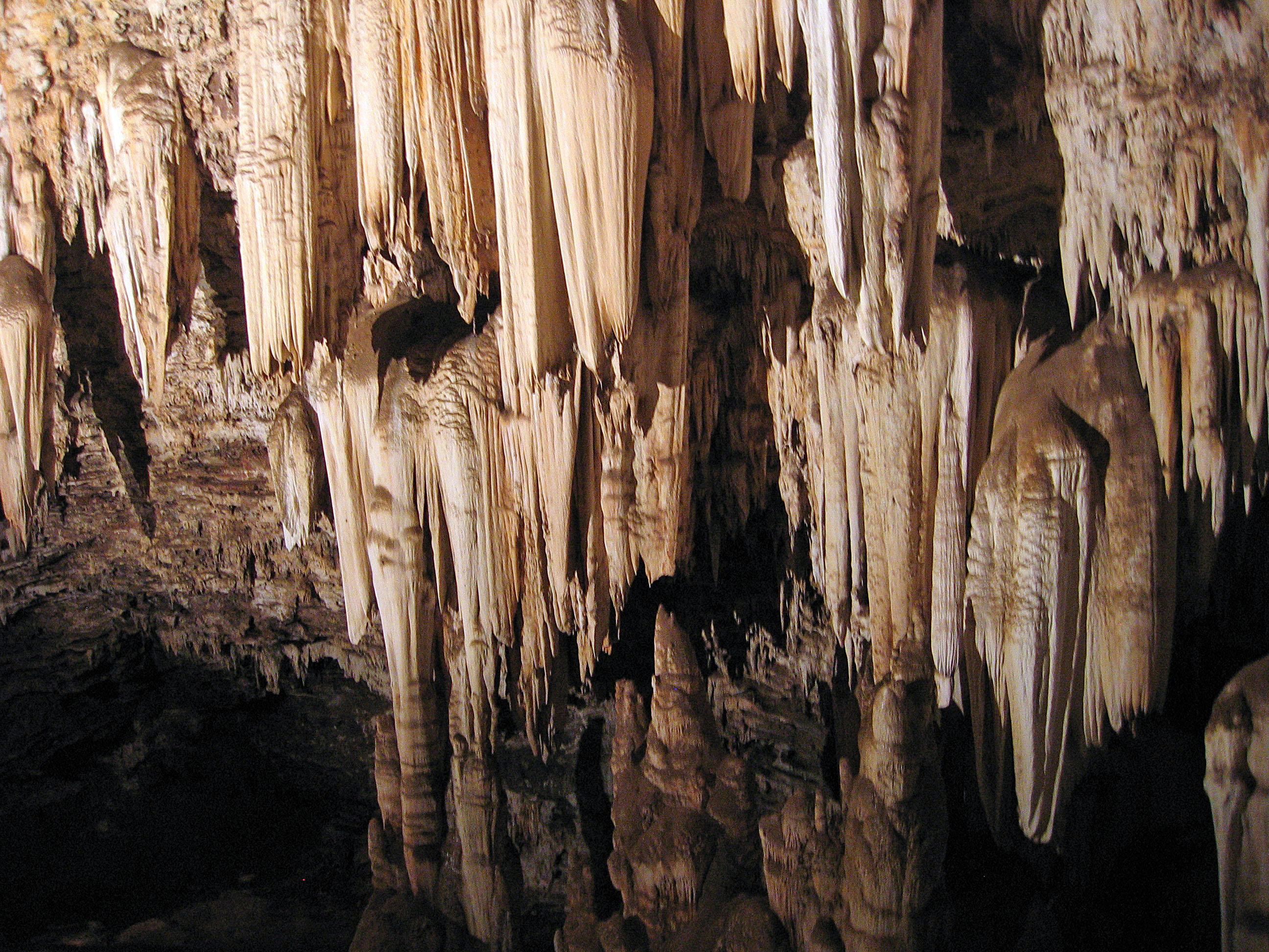 Stalagmites and Stalactites in the Wonder Cave of Kromdraai, South Africa. Taken by Rudolph Botha on 2005/05/22 at the Wonder Caves. Bothar 11:49, 18 January 2007 (UTC)